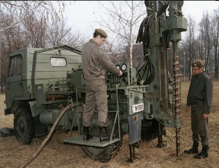 Logistics